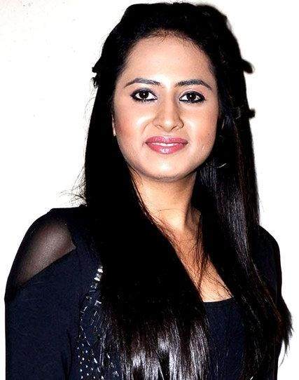 Sargun Mehta at 17th Hira Manek Awards